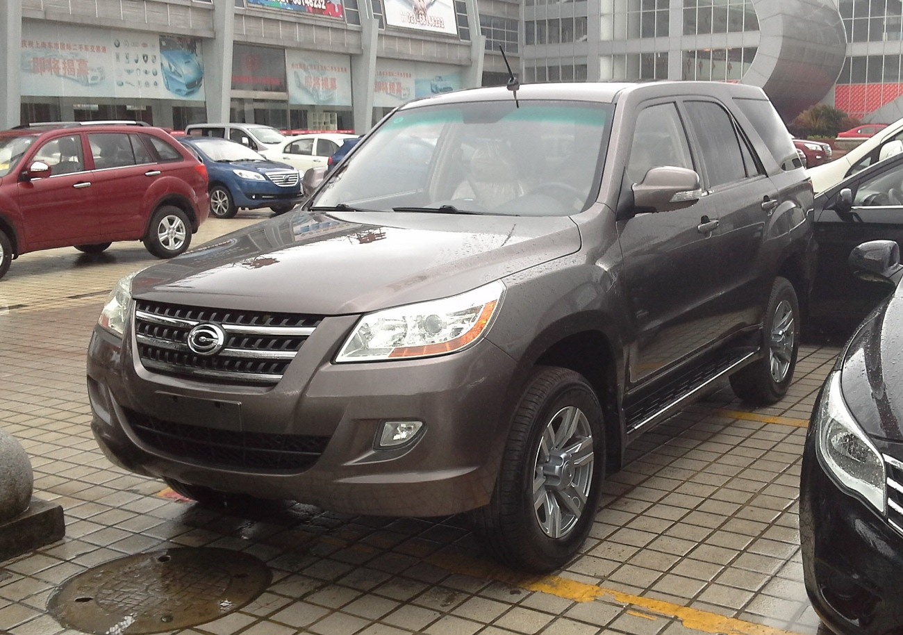 Gonow Aoosed G5 photographed in Shanghai, China.